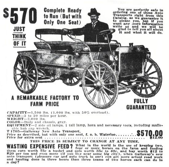 Galloway's Auto Transport was a Highwheeler automobile manufactured 1908-1910. Conceived in 1904 by William Galloway and Henry Greutsmacher, it was built at Dart Mfg. Co. in Waterloo, and offered in the mail order catalog of the William Galloway Co. in Waterloo, IA, which mainly dealed in farm implement and engines.